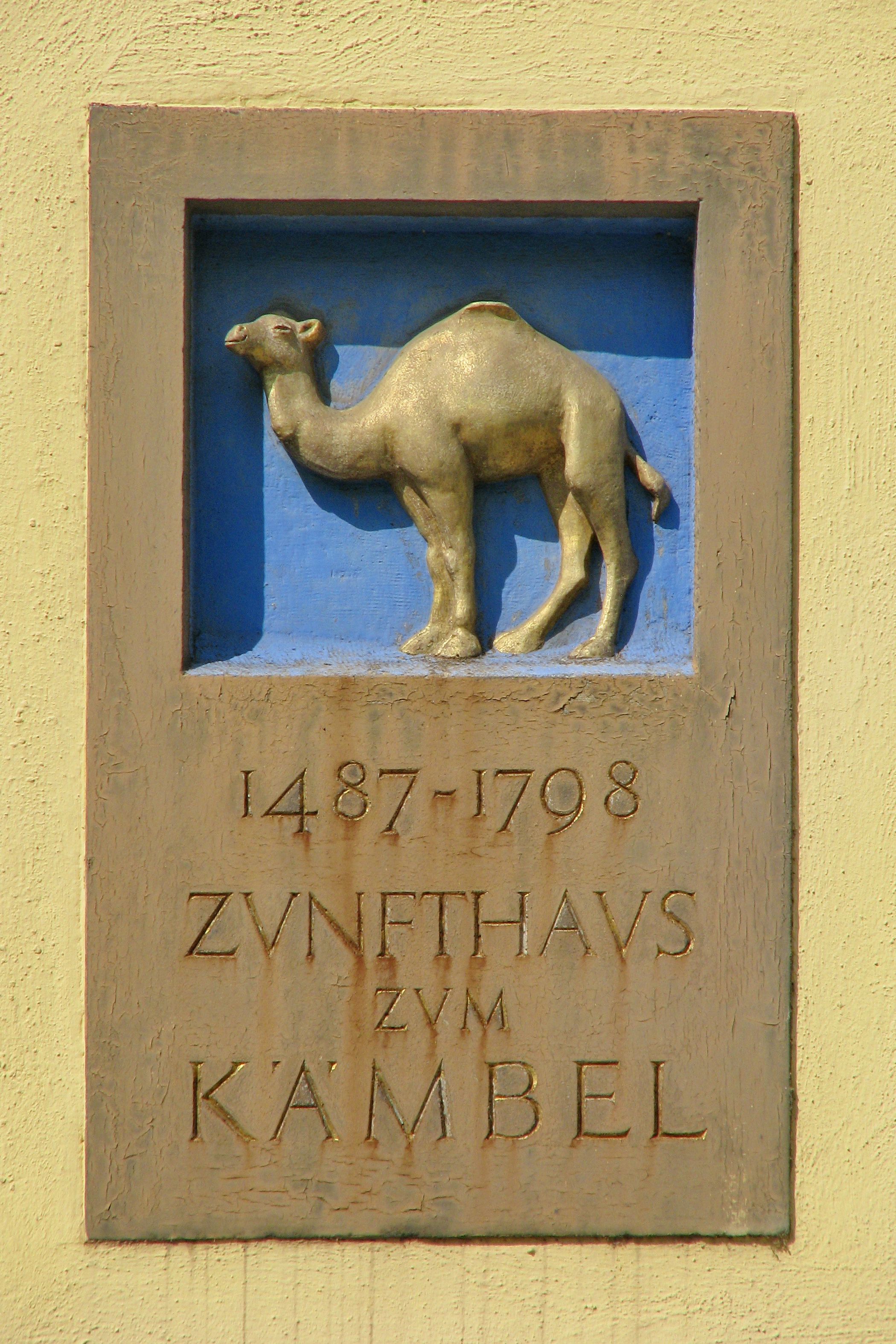 Münsterhof (Fraumünster Church) in Zürich (Switzerland) : Former Guild house of the Kämbel guild.